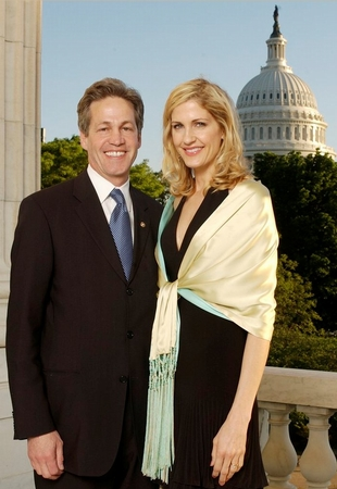 Senator Norm Coleman (R - Minnesota) and his wife, Laurie Coleman.